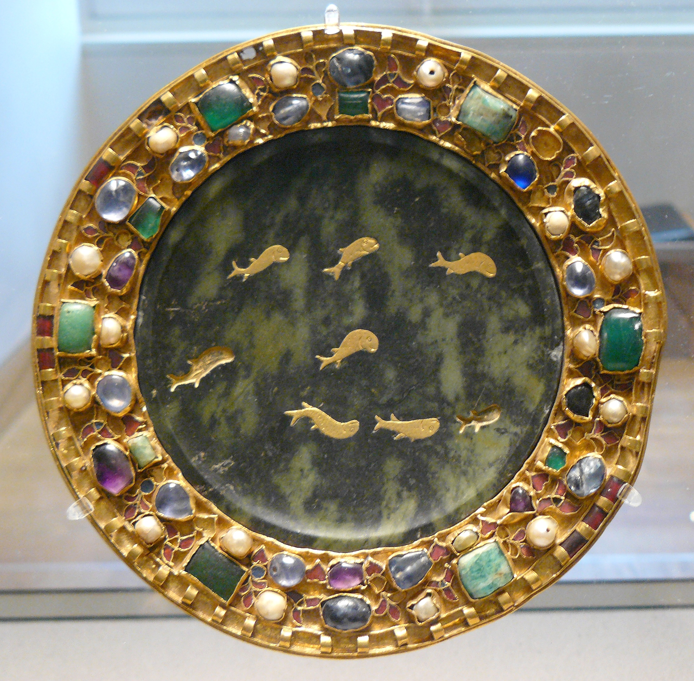 Serpentine paten with fish. Paten: 1st century BCE/CE; mount: court of Charles the Bald (second half of the 9th century). Serpentine, gold, glass and gems. Before in Abbey of Saint-Denis's treasure